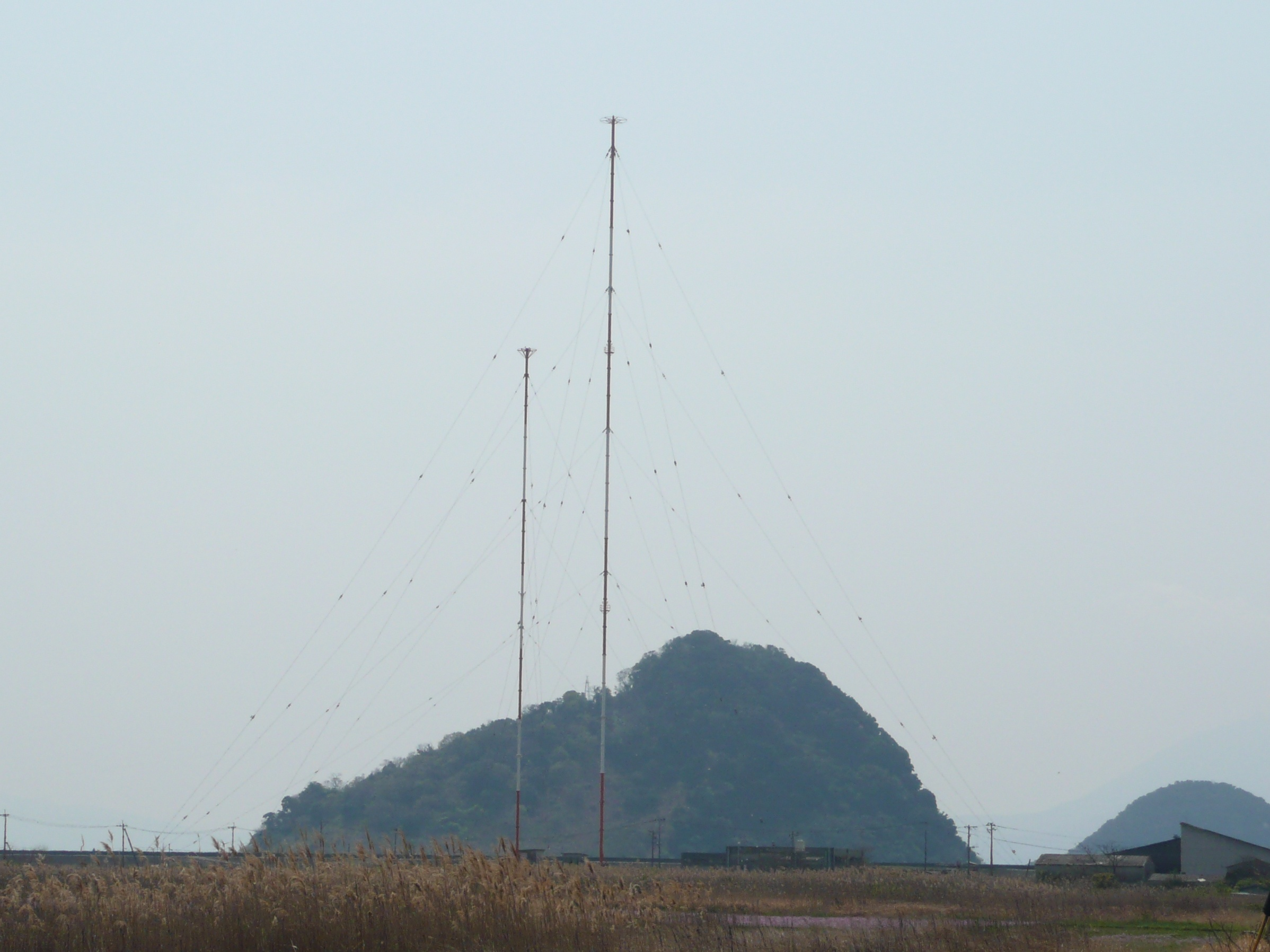 JOCF (Minaminihon Broadcasting Co.,Ltd. - AM Radio)